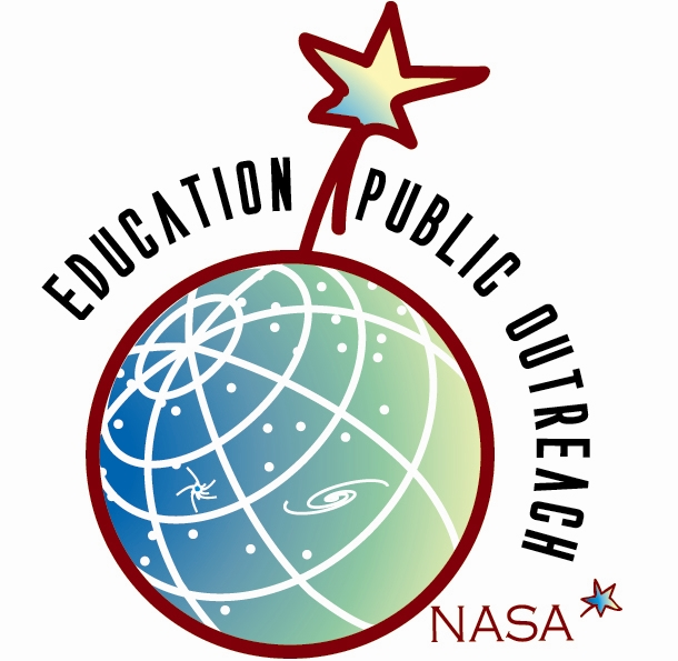 Logo of NASA’s Education and Public Outreach (E/PO) group at Sonoma State University